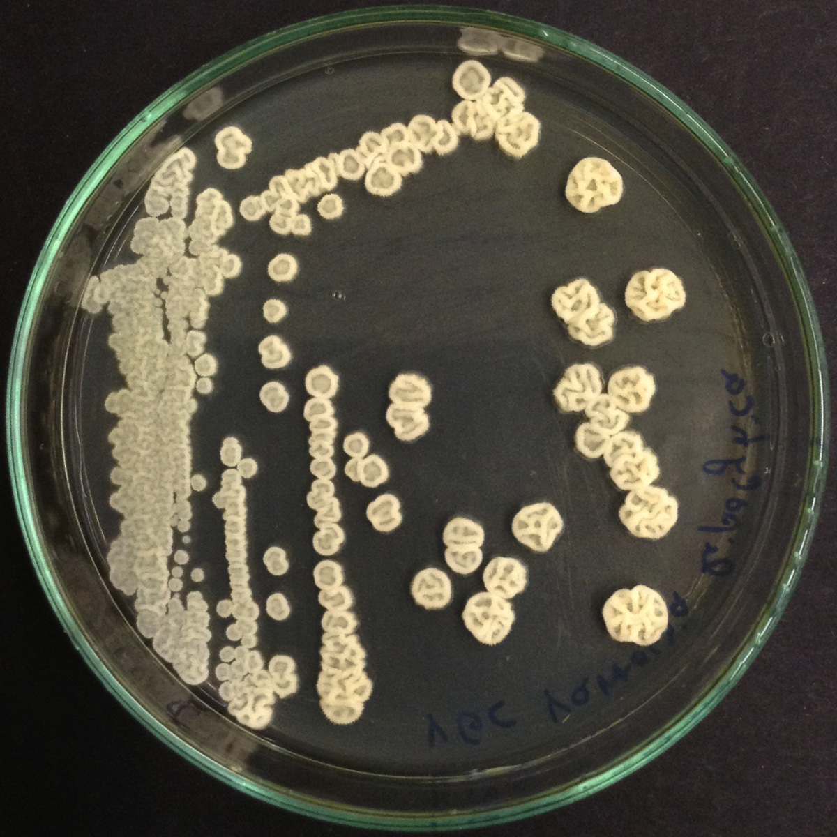 Yarrowia lipolytica colonies on yeast extract glucose chloramphenicol agar (YGC). The technique of the streaking is a three-phase streaking pattern.